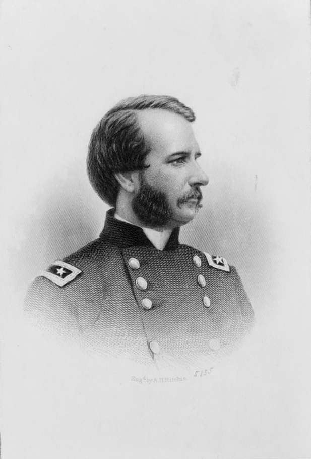 John Franklin Miller (1831 – 1886) a lawyer, businessman, and general in the Union Army. Later head of the Alaska Commercial Company and then US Senator form California.